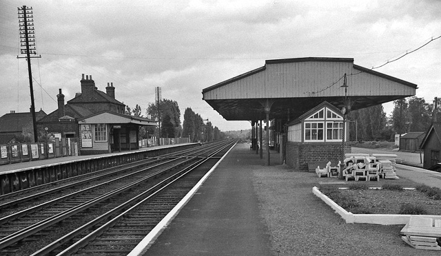 West Byfleet Station. View eastward, towards London (Waterloo); ex-London & South Western main line, Waterloo etc. - Woking - Southampton, Salisbury etc. 'Byfleet' until 5/6/50.